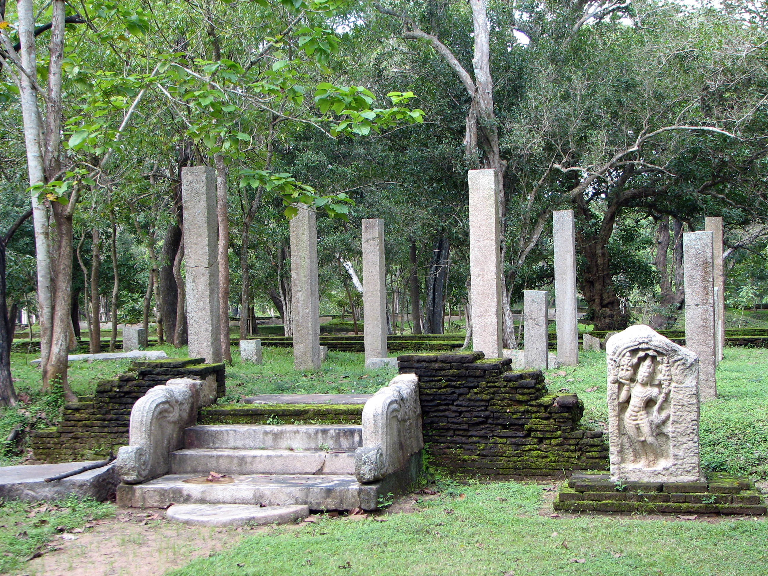 Anuradhapura site, Sri Lanka